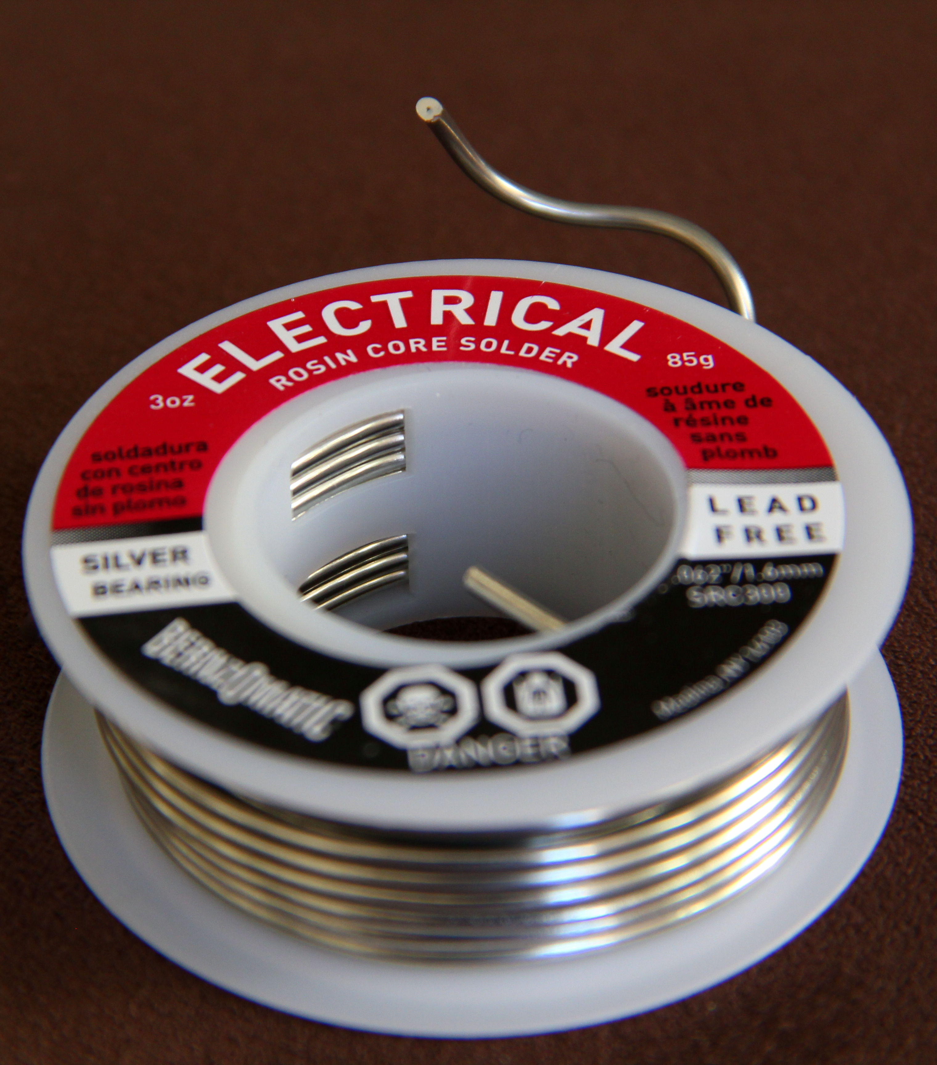 A spool of solder. The cut end shows a core (dark spot) of rosin flux. A higher-magnification view of the same subject is now available as File:Rosin core electrical solder.JPG.